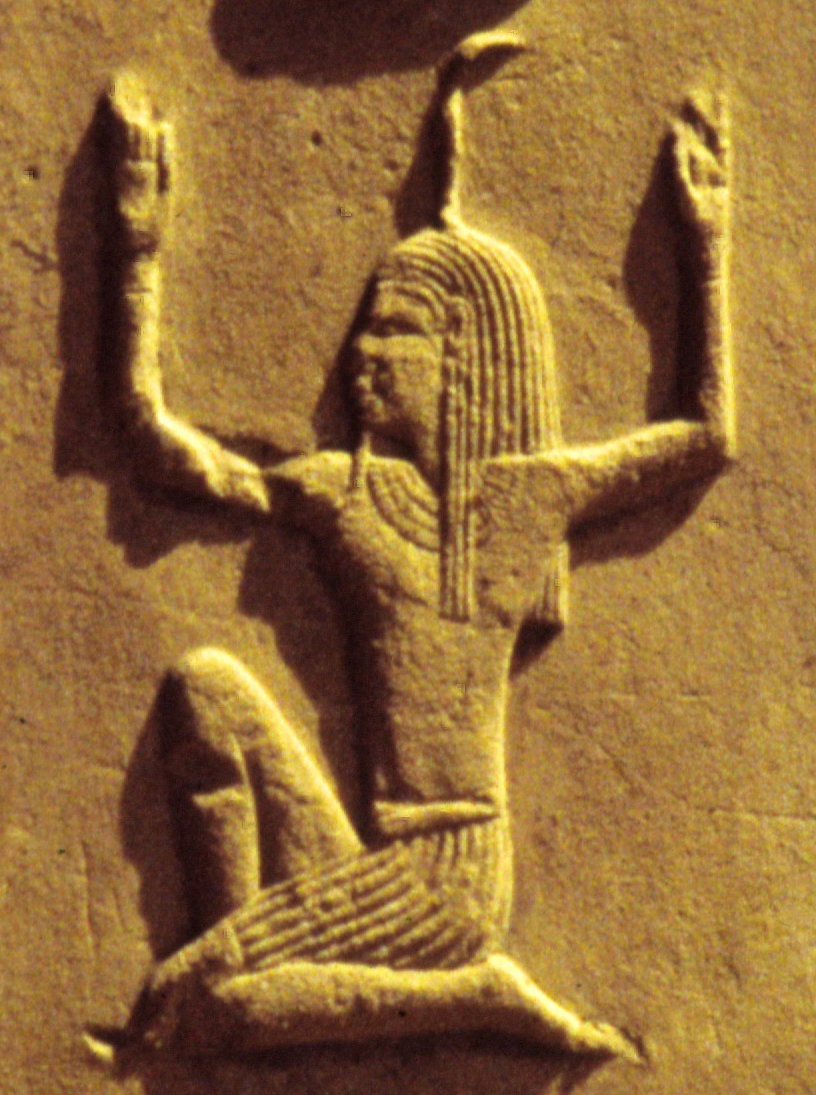 Posture of the deity Heh, egyptian symbol for eternity, infinite. Karnak, White Chapel.